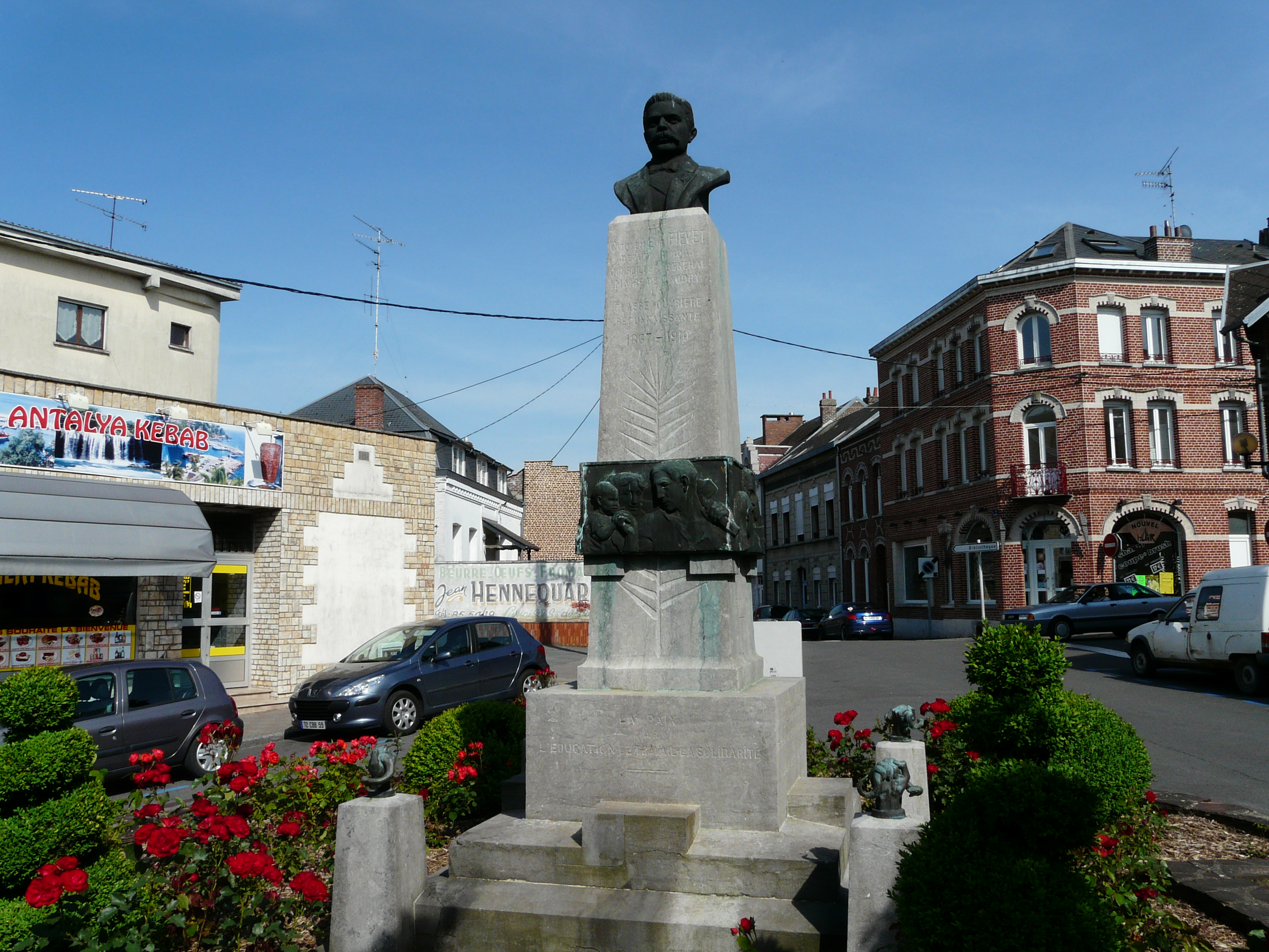 Monument to Eugène Fievet in Caudry; socialist mayor of Caudry (France) 1900-1910